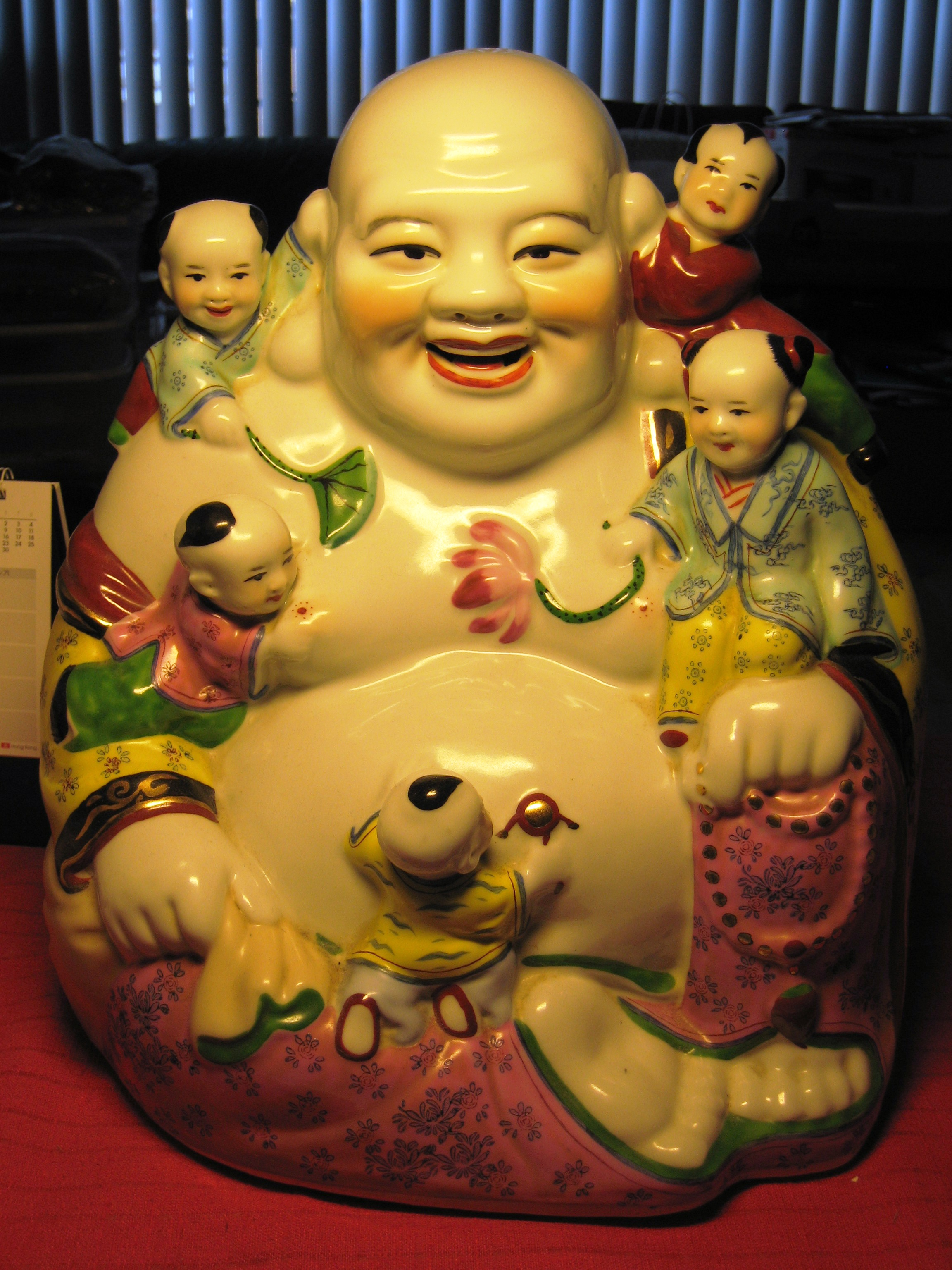 china Maitreya Buddha